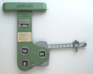 C J Sangwin, personal photo from private collection.